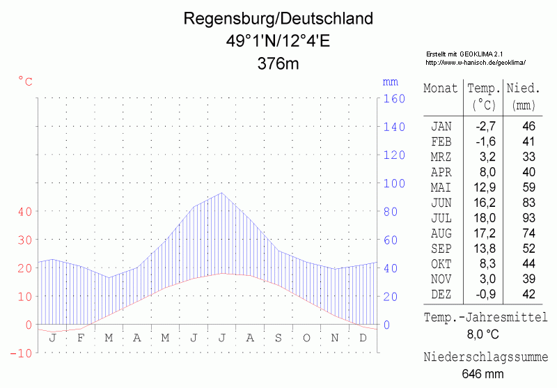 climate chart in the format by Walther and Lieth, metric, °Celsisus and millimeters, made with Geoklima 2.1